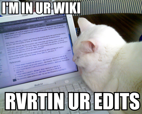 IM IN UR WIKI/RVRTIN UR EDITS. That's all you need to know.